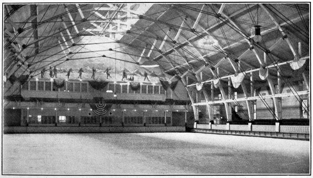 Clermont Avenue Skating Rink in Brooklyn, New York City.